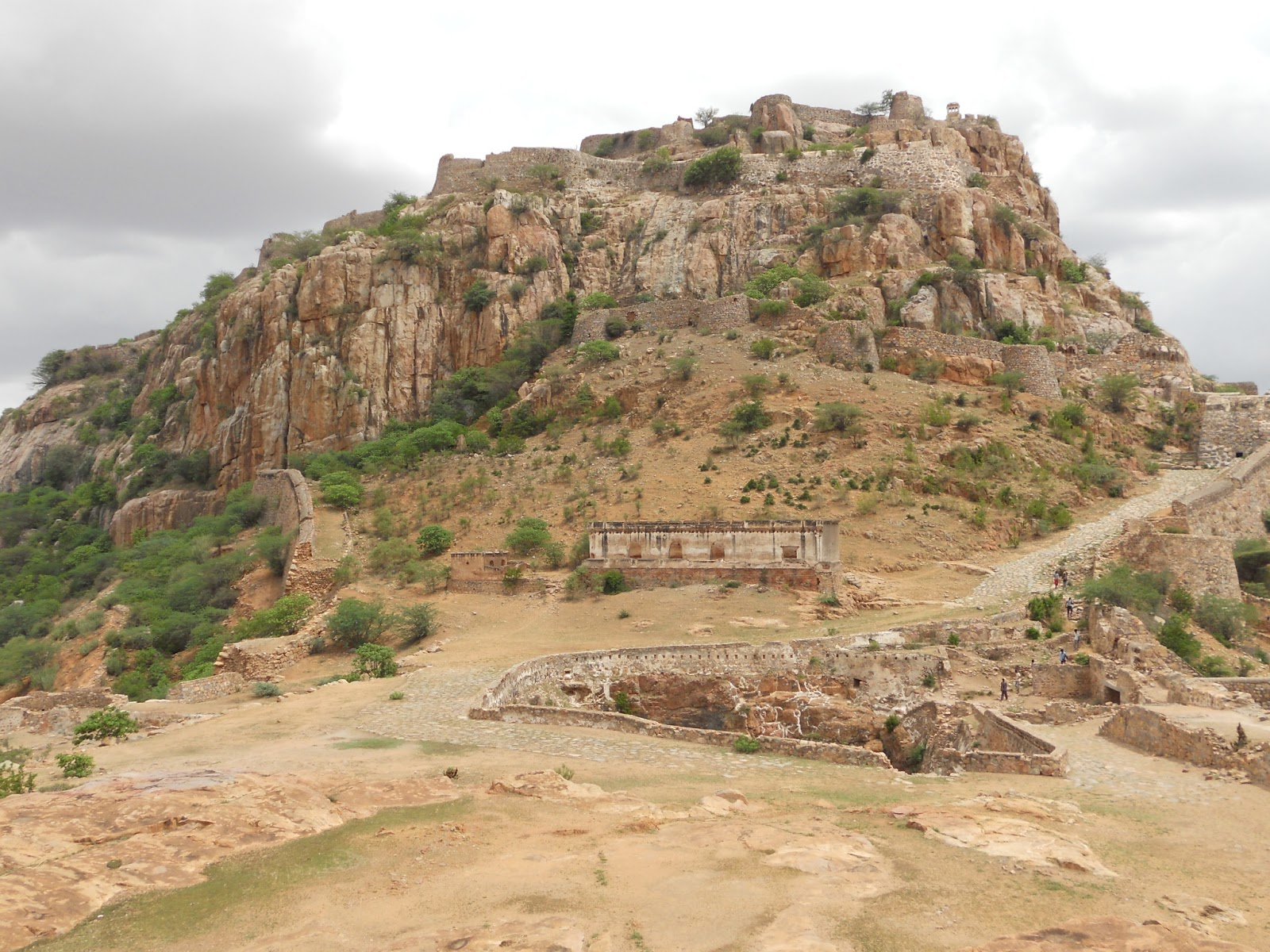 A Mountain Fort